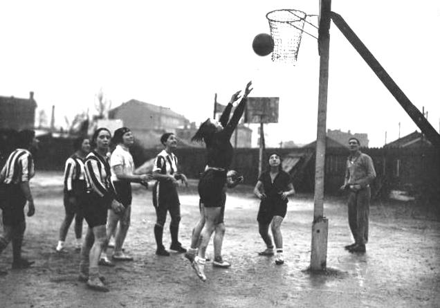 Women playing basketball in Paris (1933)